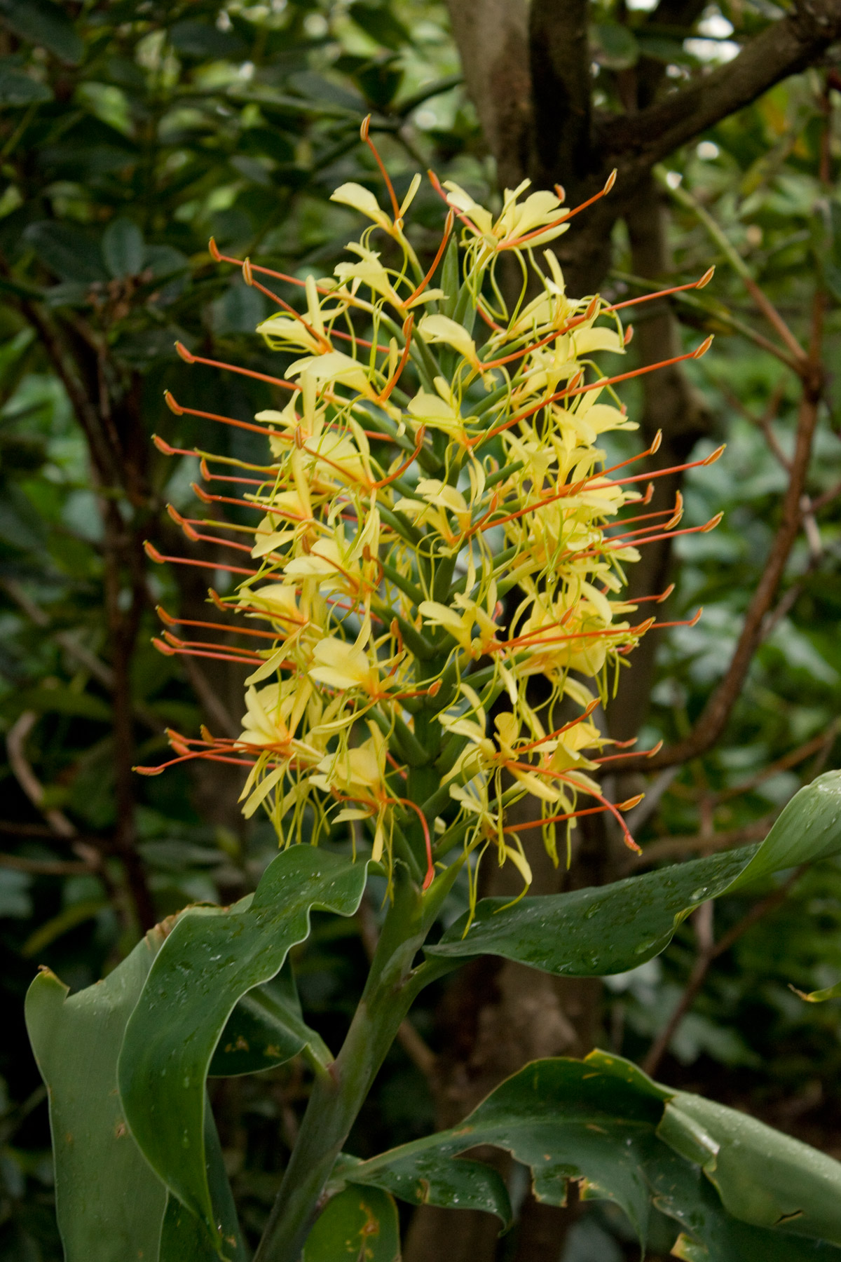 Royal Botanical Gardens, Melbourne Australia